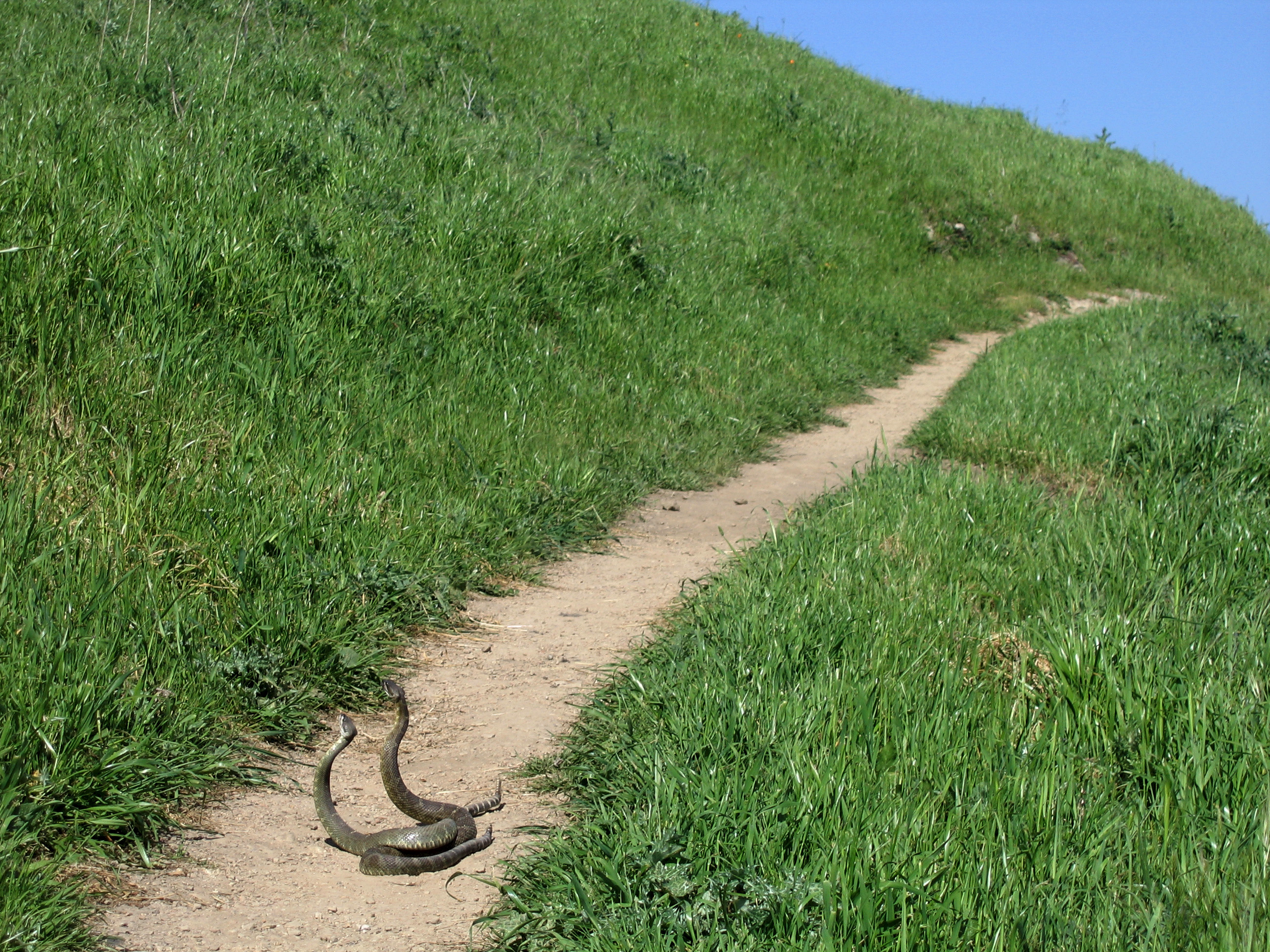 Rattlesnake Dance, Portola Valley, Windy Hill Open Space Preserve, San Mateo County, California. – "It seemed like part dance, part wrestling match. I thought they might be courting, but it's a combat ritual between two male Northern Pacific Rattlenakes (Crotalus oreganus oreganus)." Part of the Midpeninsula Regional Open Space District system.